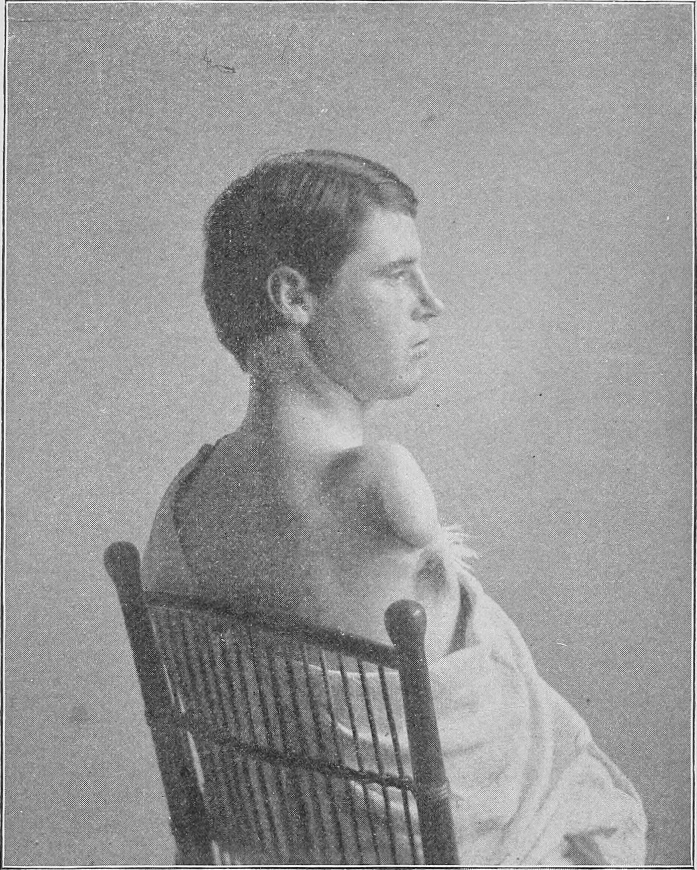 derivative work of File:Railway surgery - a handbook on the management of injuries (1899) (14757141034).jpg